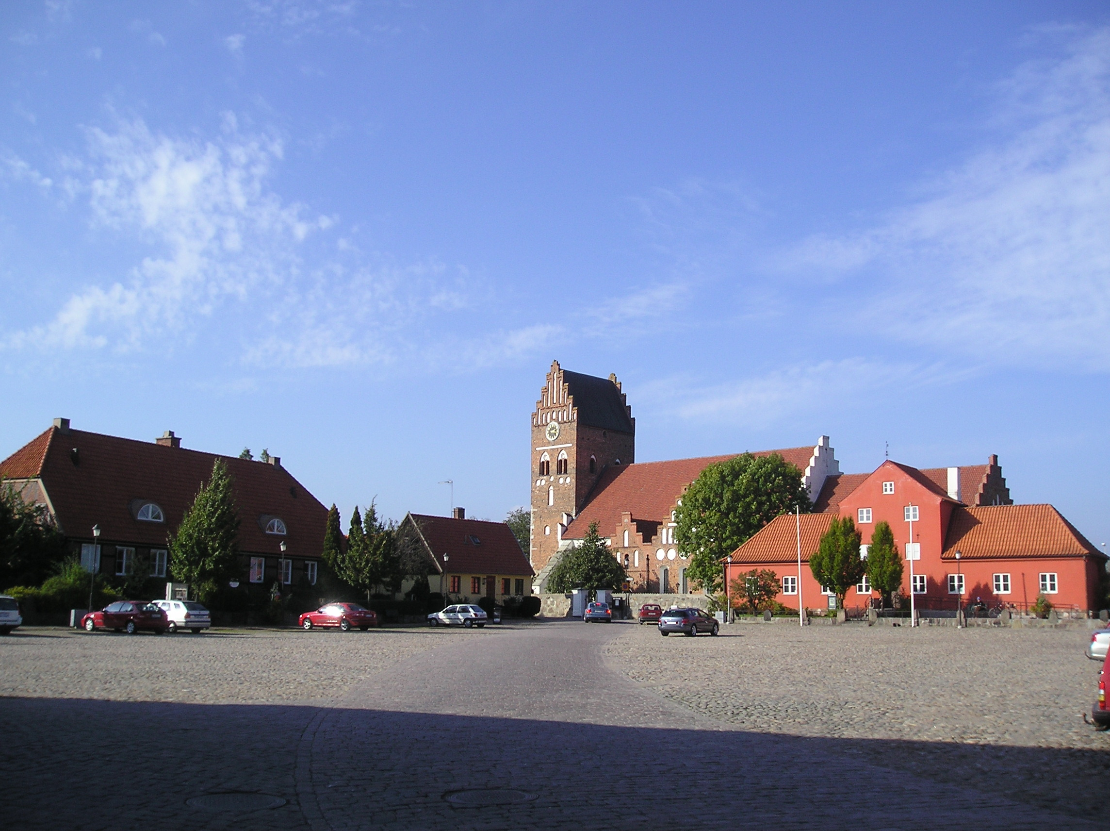 Åhus marketplace with Åhus church